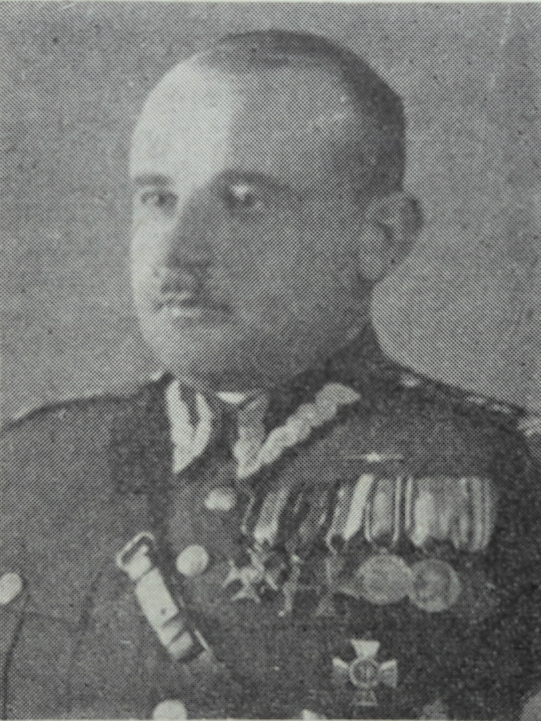 Lt Col Wacław Malinowski – in September 1939 commander of the 42 Infantry Regiment (Poland)